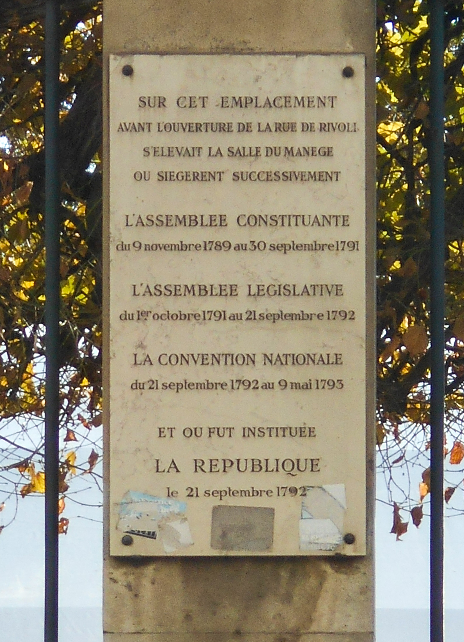 Plaque in memory of the historical site of the first French Parliament, rue de rivoli, Paris